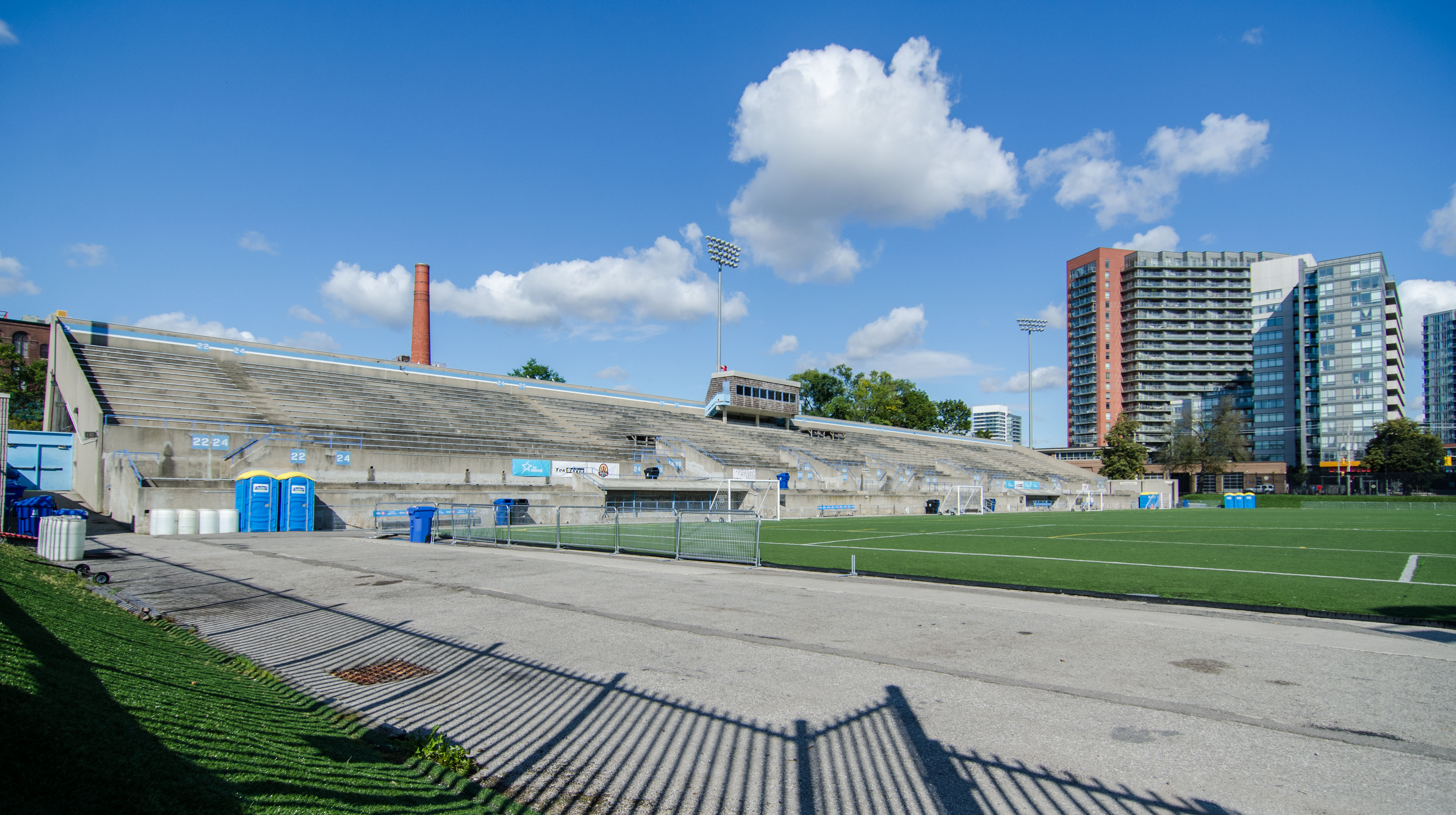 Seen in Shadowhunters episodes #208 & 209.